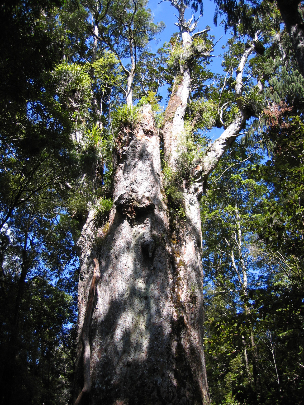 Agathis australis "Te Matua Ngahere" in Waipoua Forest.